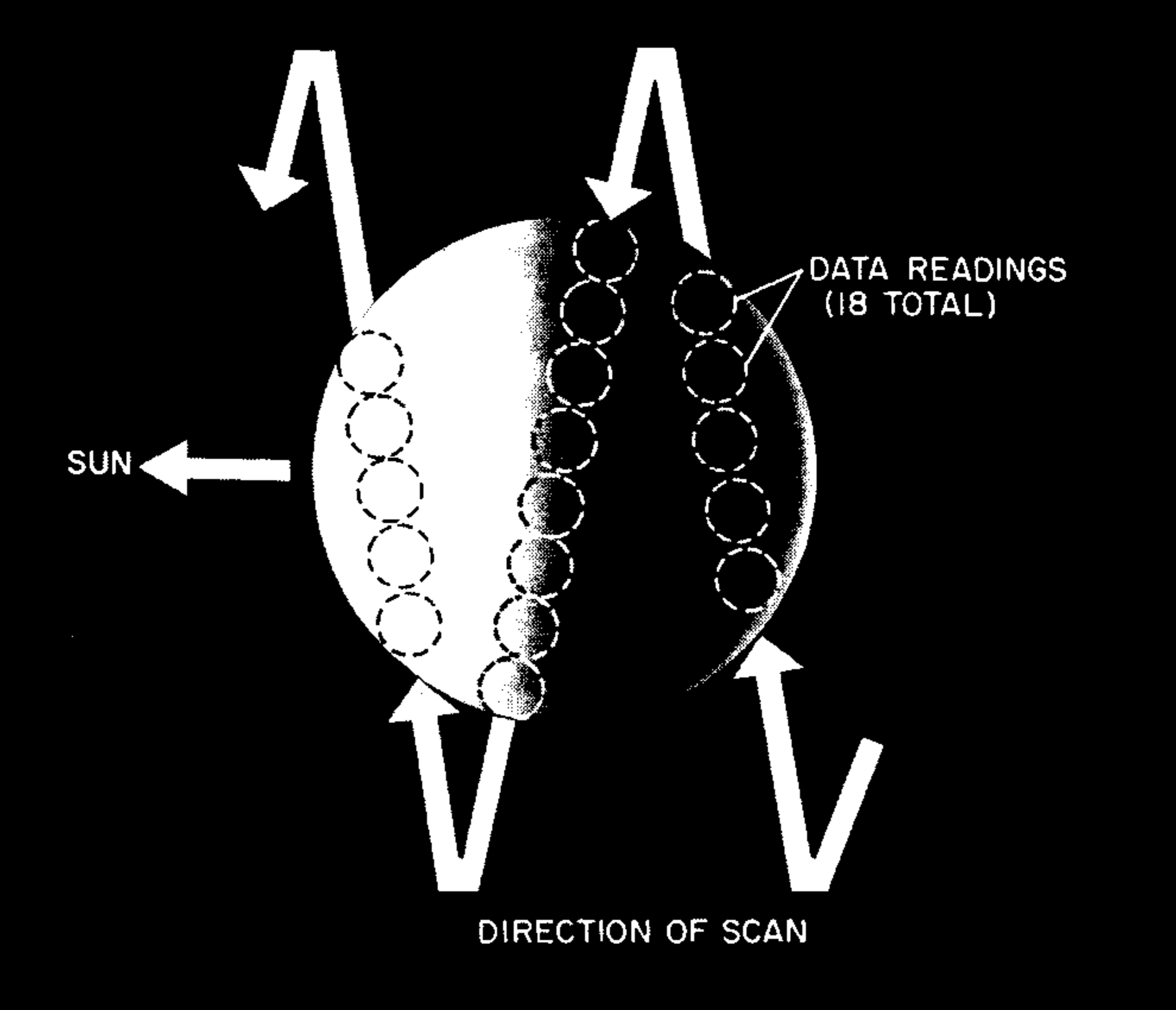 Radiometric scans of Venus by Mariner 2 Despite the partial failure of the scan system, the probe performed three scans on the planet, luckily on the dark side, the terminator and the bright side, providing 1/5 of the expected measurements